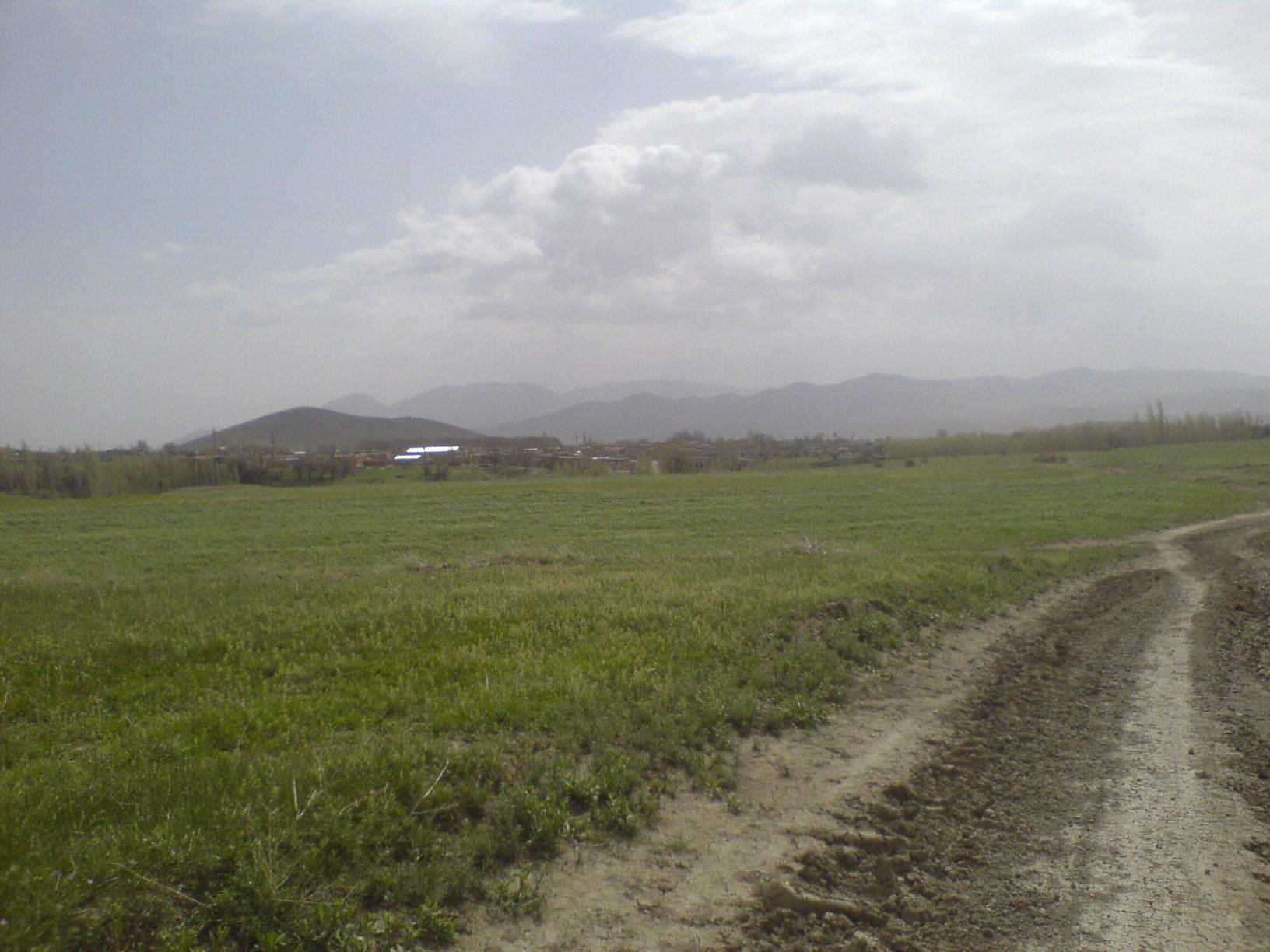 faraj abad فرج آباد روستایی زیبا در استان مرکزی شهرستان خمین